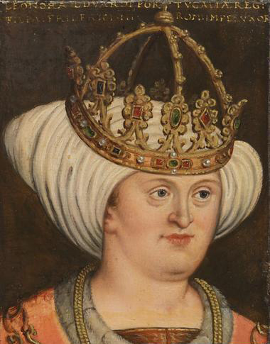 Eleanor of Portugal Holy Roman Empress